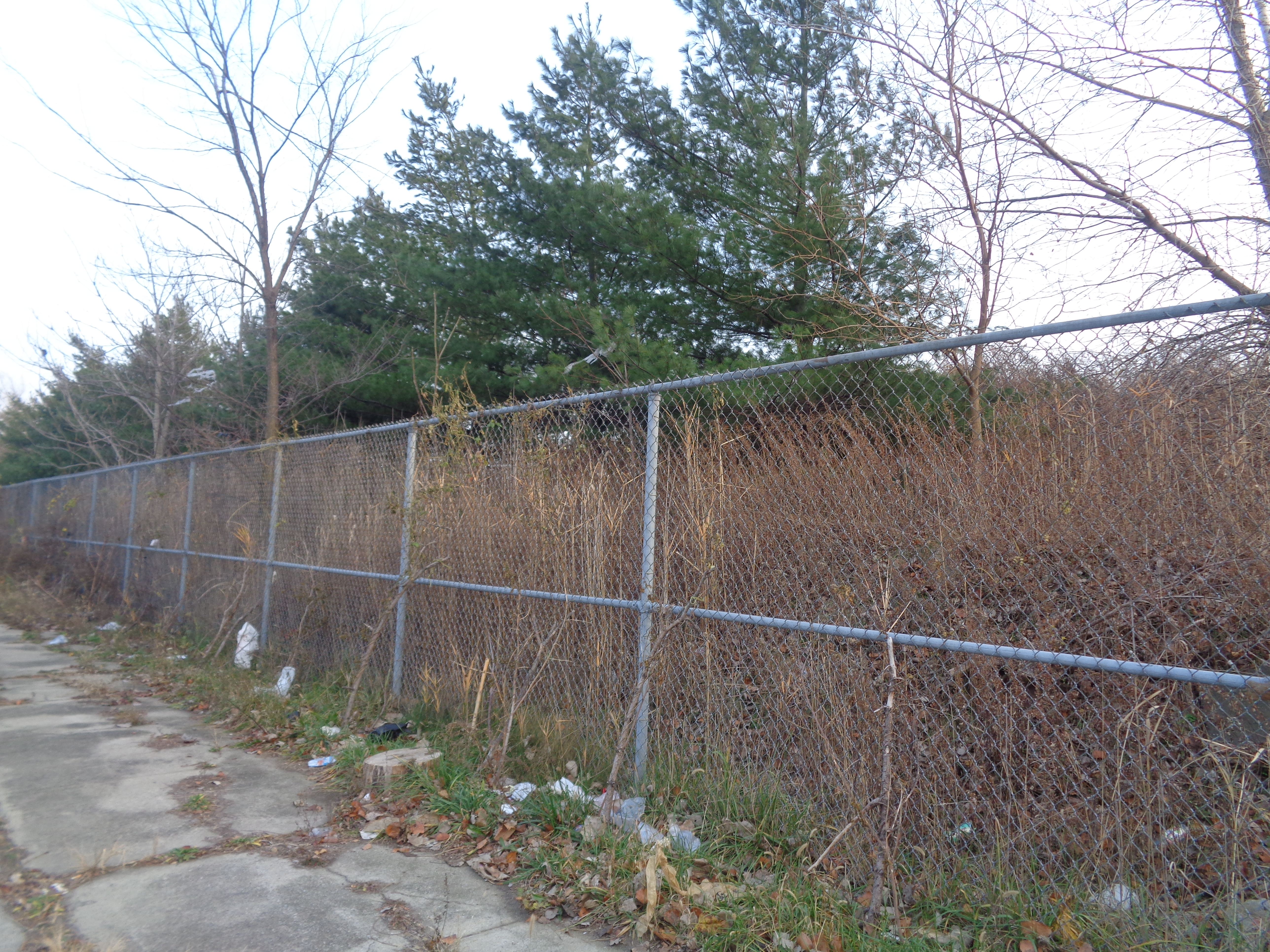 A fence on Flatlands Avenue in Spring Creek, Brooklyn, partitioning-off the nature-preserve-like portion of Spring Creek Park that extends from Spring Creek to Howard Beach, Queens. Immediately past (south) this fence is the Spring Creek Auxiliary Water Pollution Control Plant (Spring Creek AWPCP), operated by the NYCDEP.